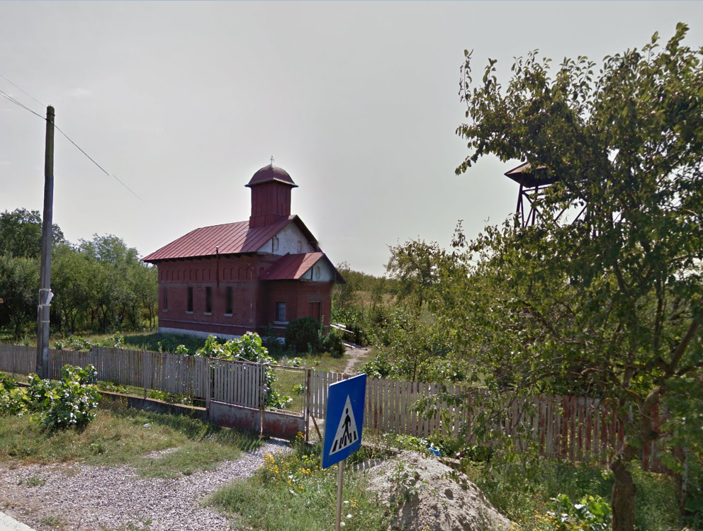 Orthodox Church in Crivățu, DâmbovițaRomână: Biserica Ortodoxă din Crivățu, Dâmbovița